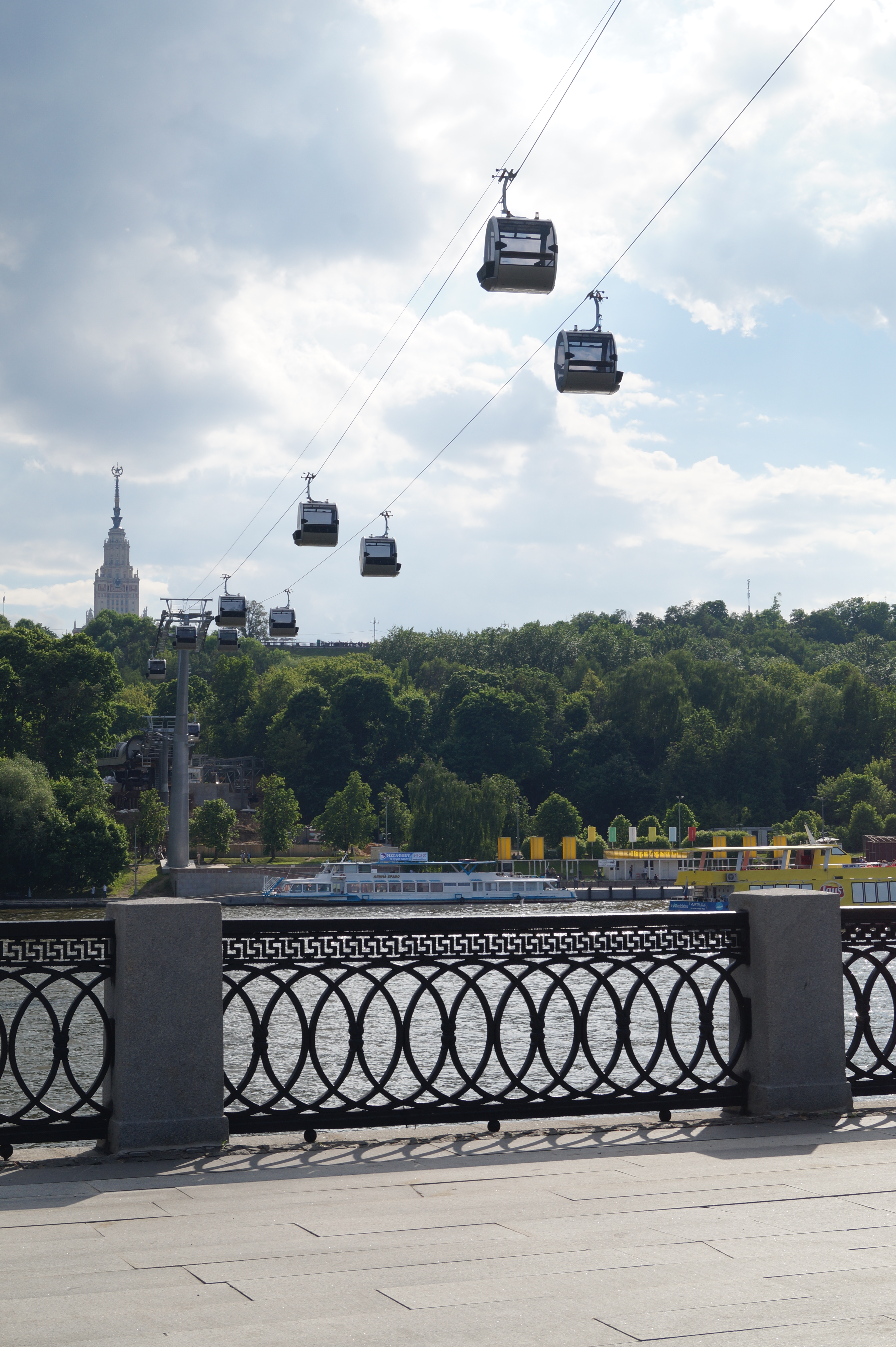 Luzhniki Cableway Station May 2018